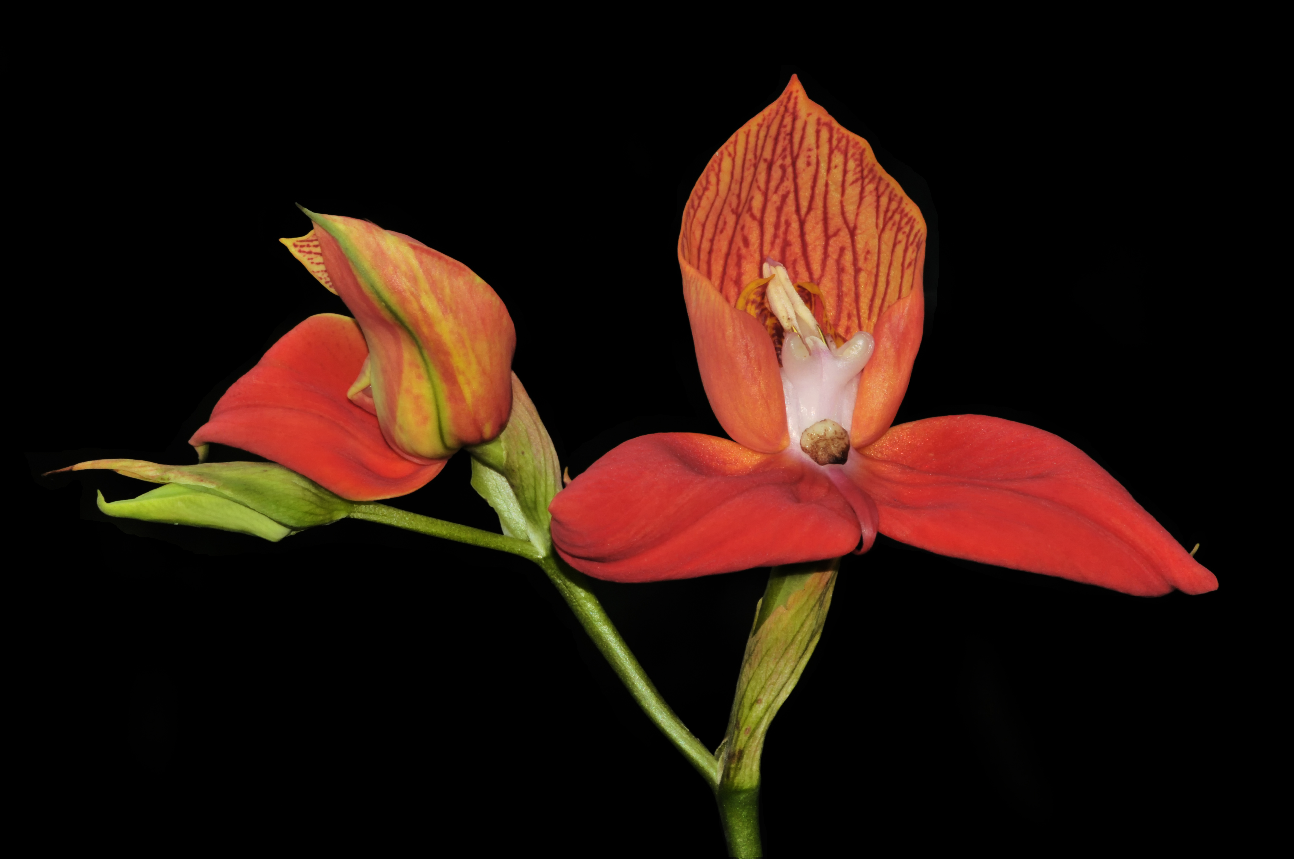 Disa uniflora is a species of orchid in the Orchidaceae family in the Berggarten in Hanover, Germany.